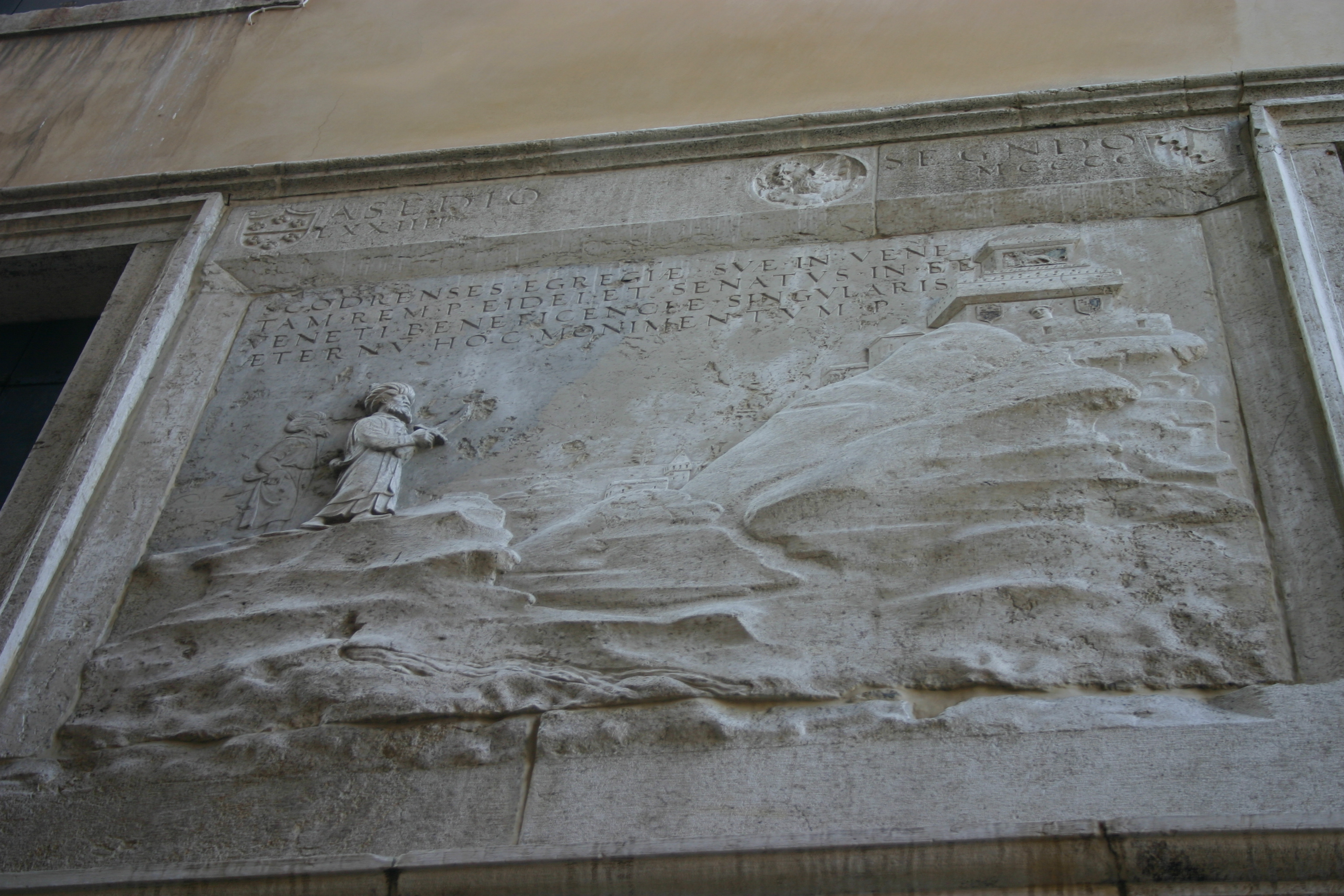 Venice, the Ottoman sultan Mehmet II assieging in vain the Albanian town of Scutari (under Venetian rule). Renaissance relief, dated 1474, on the facade of former Scola degli Albanesi ("guildhall of the Albanians"), in Campo San Maurizio square. The latin inscription thanks the Venetian government. Picture by Giovanni Dall'Orto, August 12, 2007.